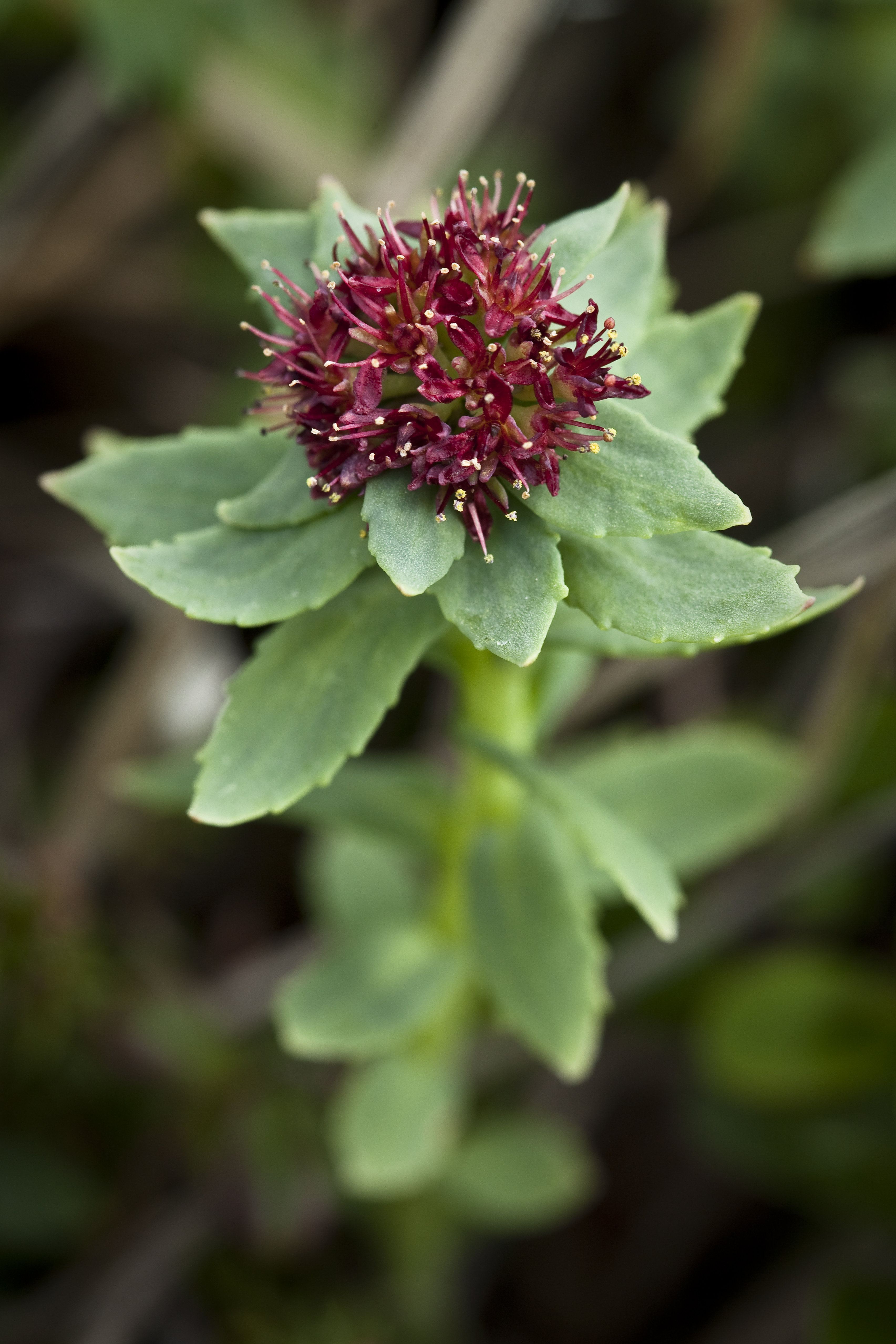 Rhodiola integrifolia, Denali National Park and Preserve, AK, USA